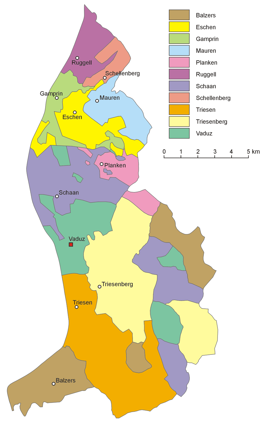 Administrative divisions of Liechtenstein. By Aotearoa